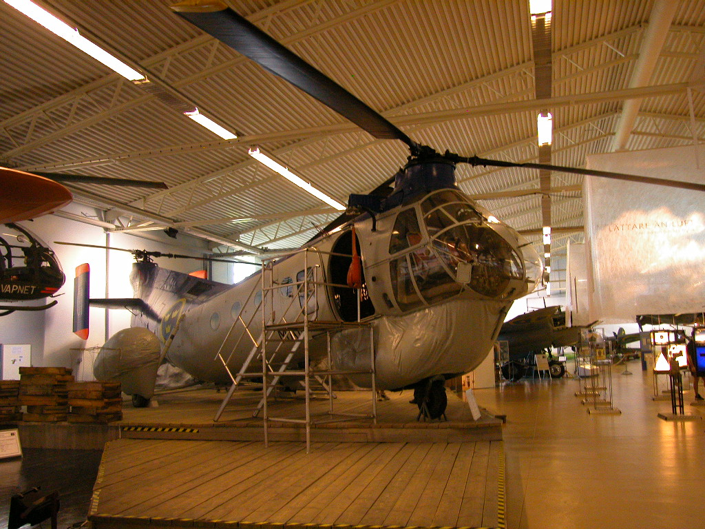 Swedish Air Force/Navy Helicopter Hkp 1B (Vertol 44A)), in use in Sweden between 1958-1972. Here on display at Flygvapenmuseum (Air Force Museum), Malmslätt Airfield, Linköping, Sweden. Photo taken in May 2003, by me, Kapten Kaos. I hereby release this image in the Public Domain. No rigthts reserved.